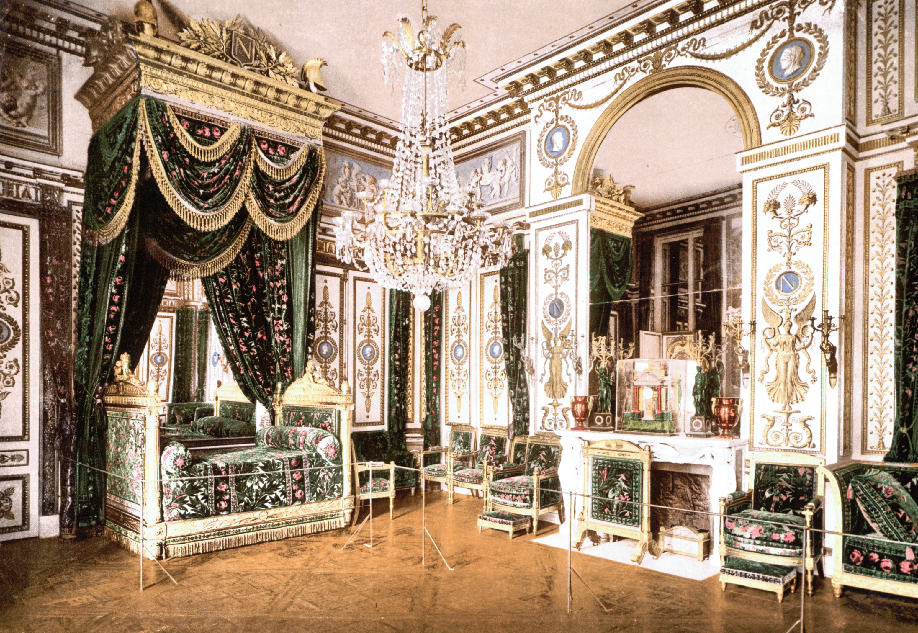 Château of Fontainebleau, bedroom of Napoleon I